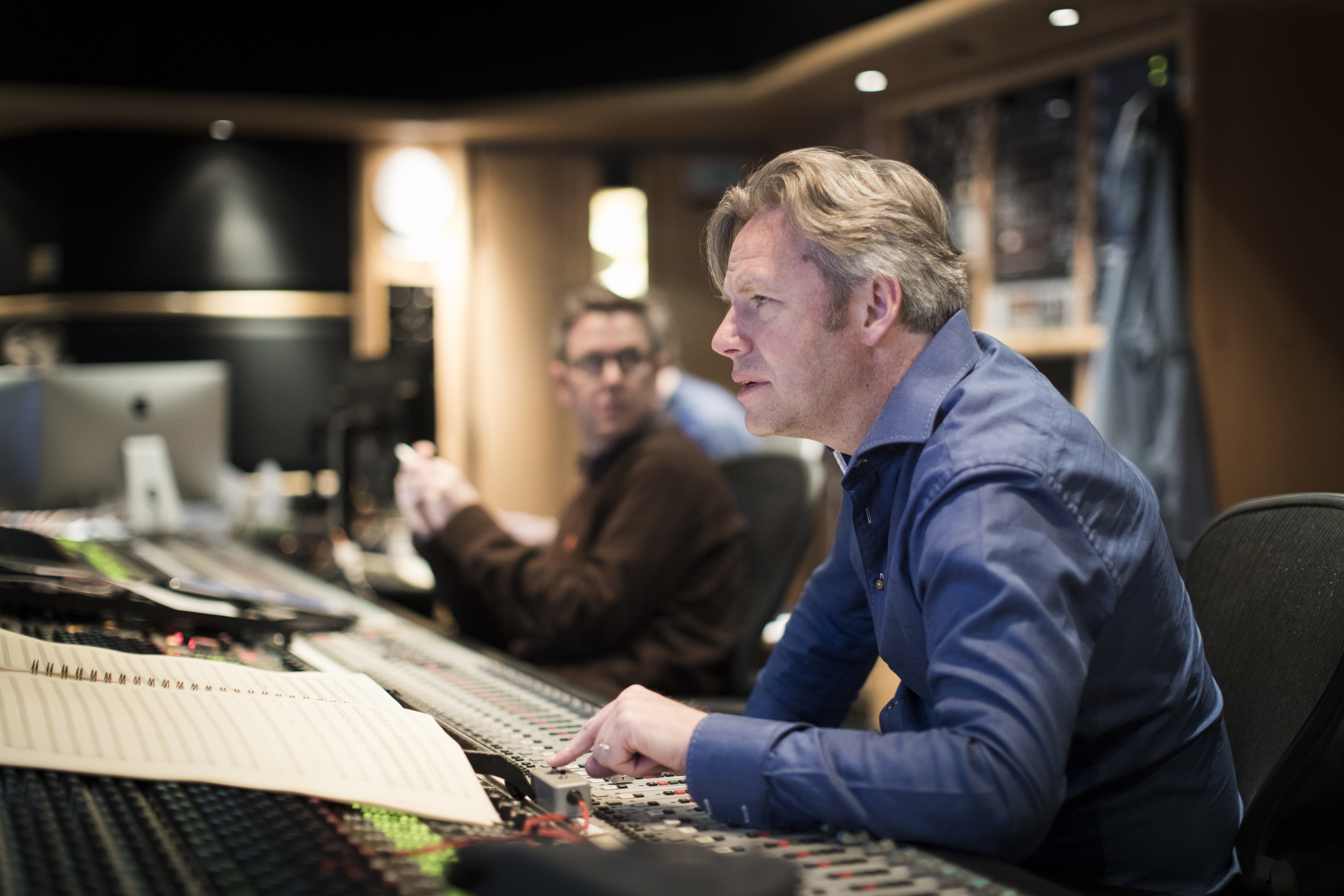 Air Lyndhurst Hall, London.